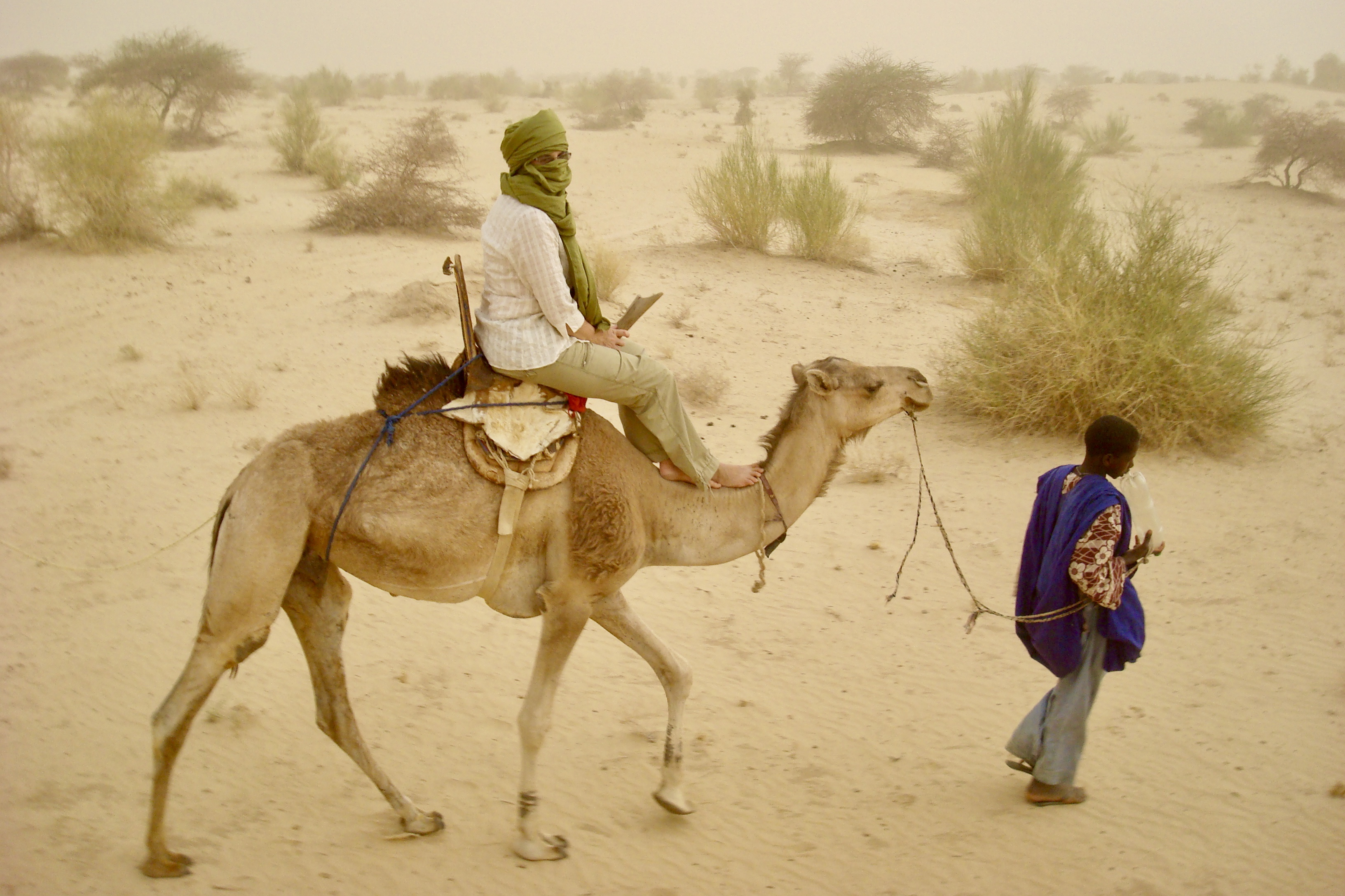 While visiting Timbuktu to assist in the building of a new archive for the manuscripts of Timbuktu, members of the South African team were treated to a camel ride in the Sahara Desert. This is an image with the theme "Play" from: Mali